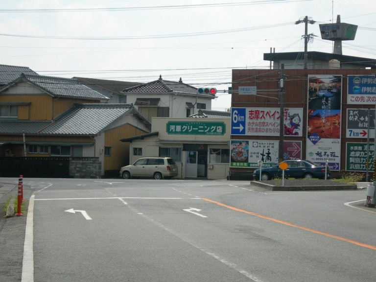 Mie prefectural route No.32, between Ise city and Shima city in Japan.